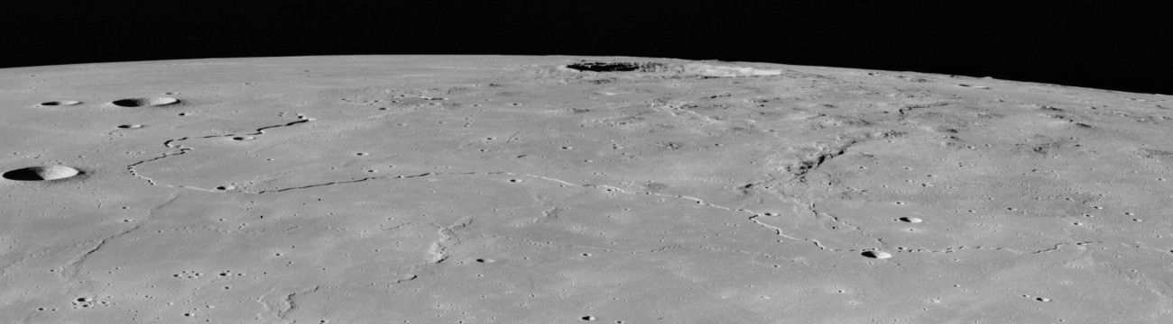 Oblique view facing south of most of the Rima Marius, with the crater Marius at right on the horizon, on the moon.